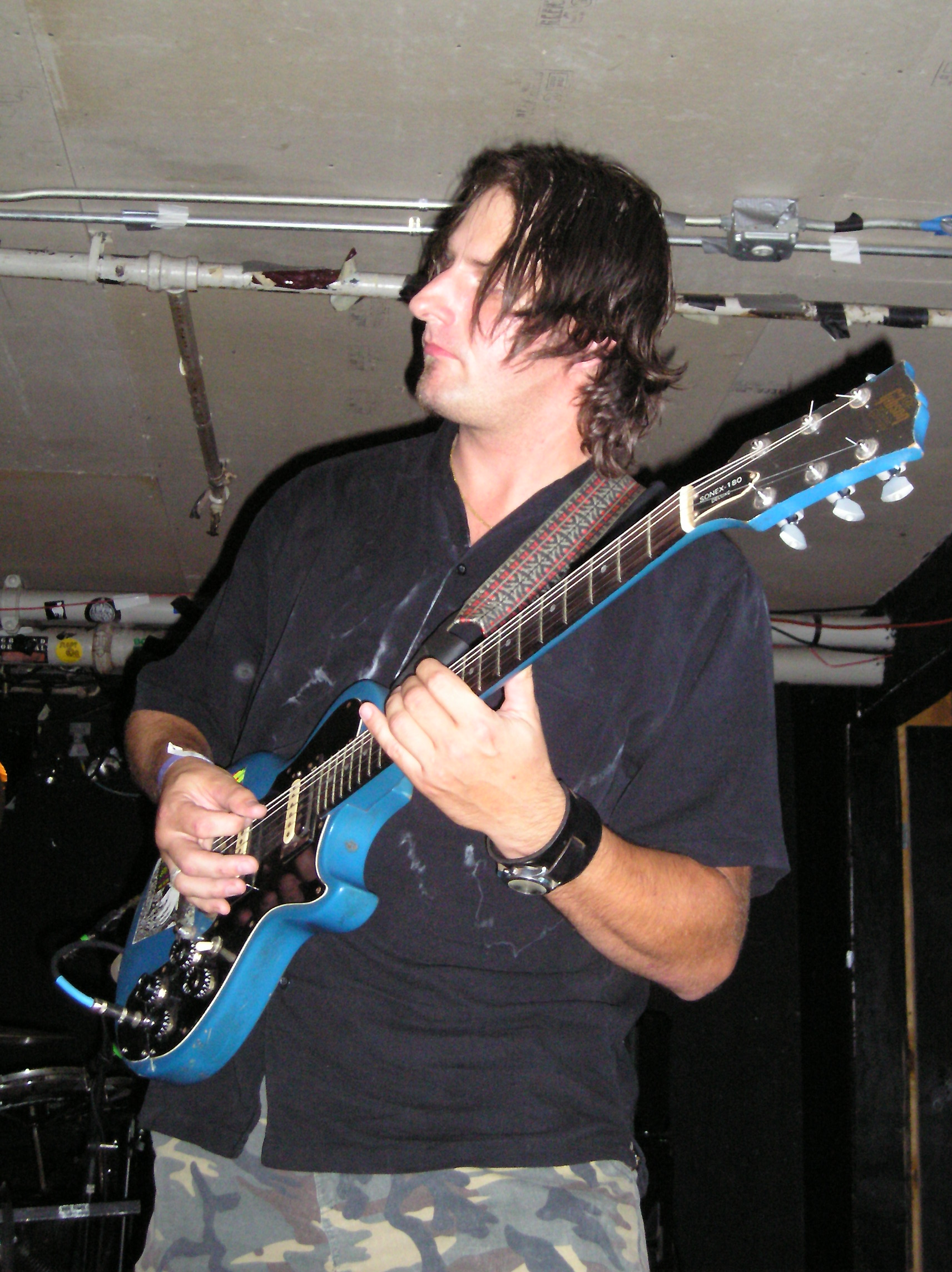 Don Caballero, July 14th, 2006 at the Middle East Downstairs, with 27, and Deadboy and the Elephantmen.